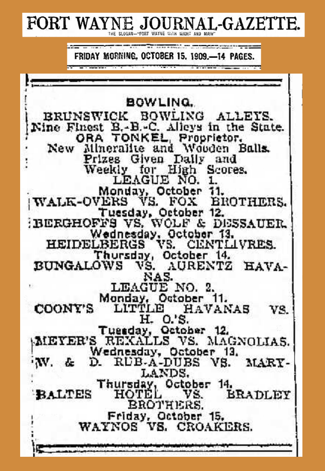 October 15, 1909 Newspaper advertisement in the Fort Wayne Journal-Gazette mentioning Mineralite bowling balls